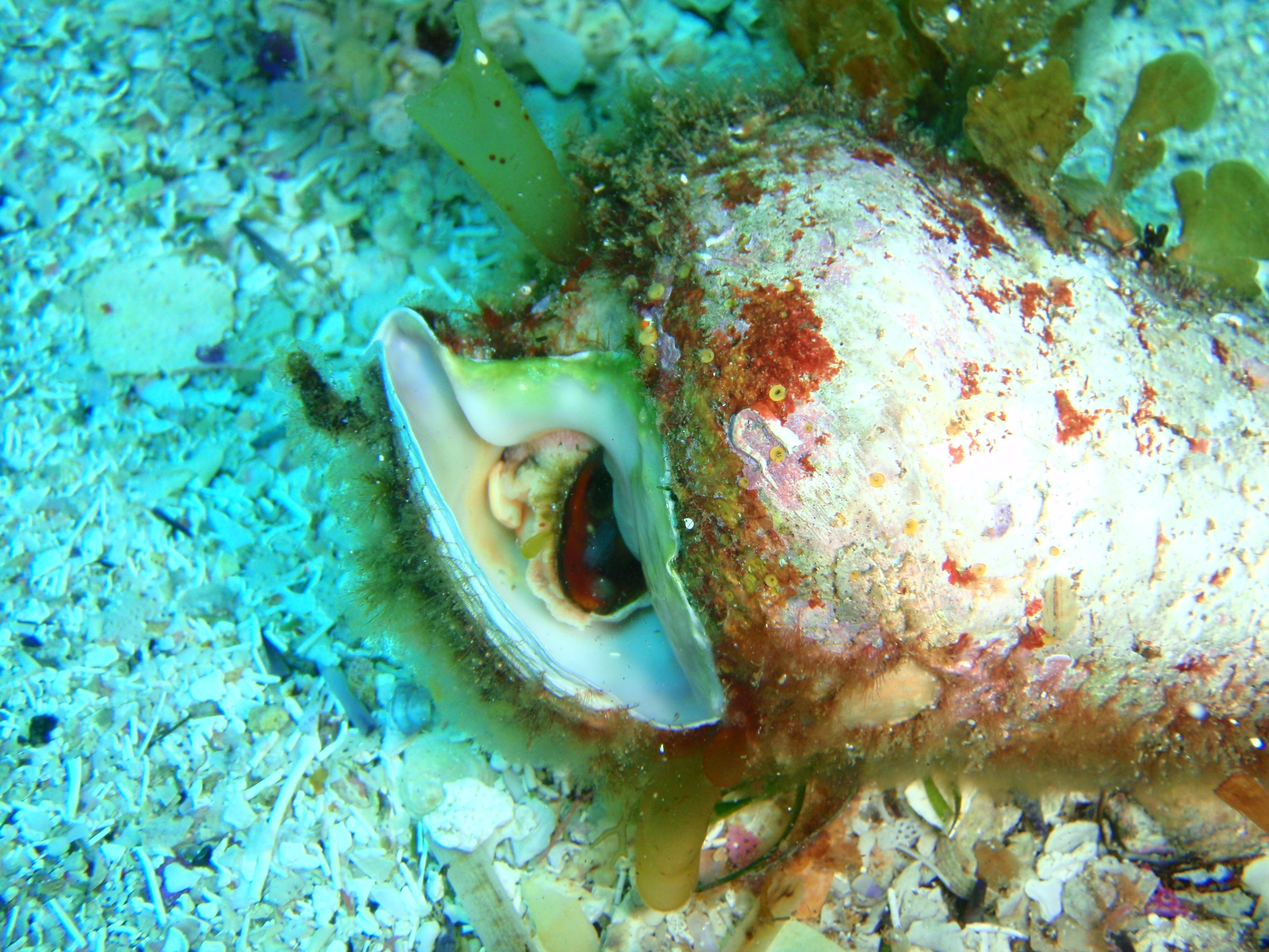 Giant creeper Campanile symbolicus at North west bay, Mondrain Island, Western Australia